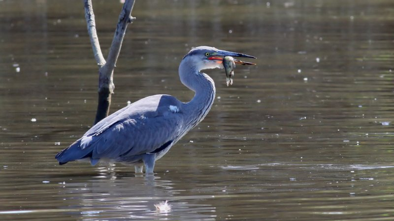 Grey Heron (Ardea cinerea)